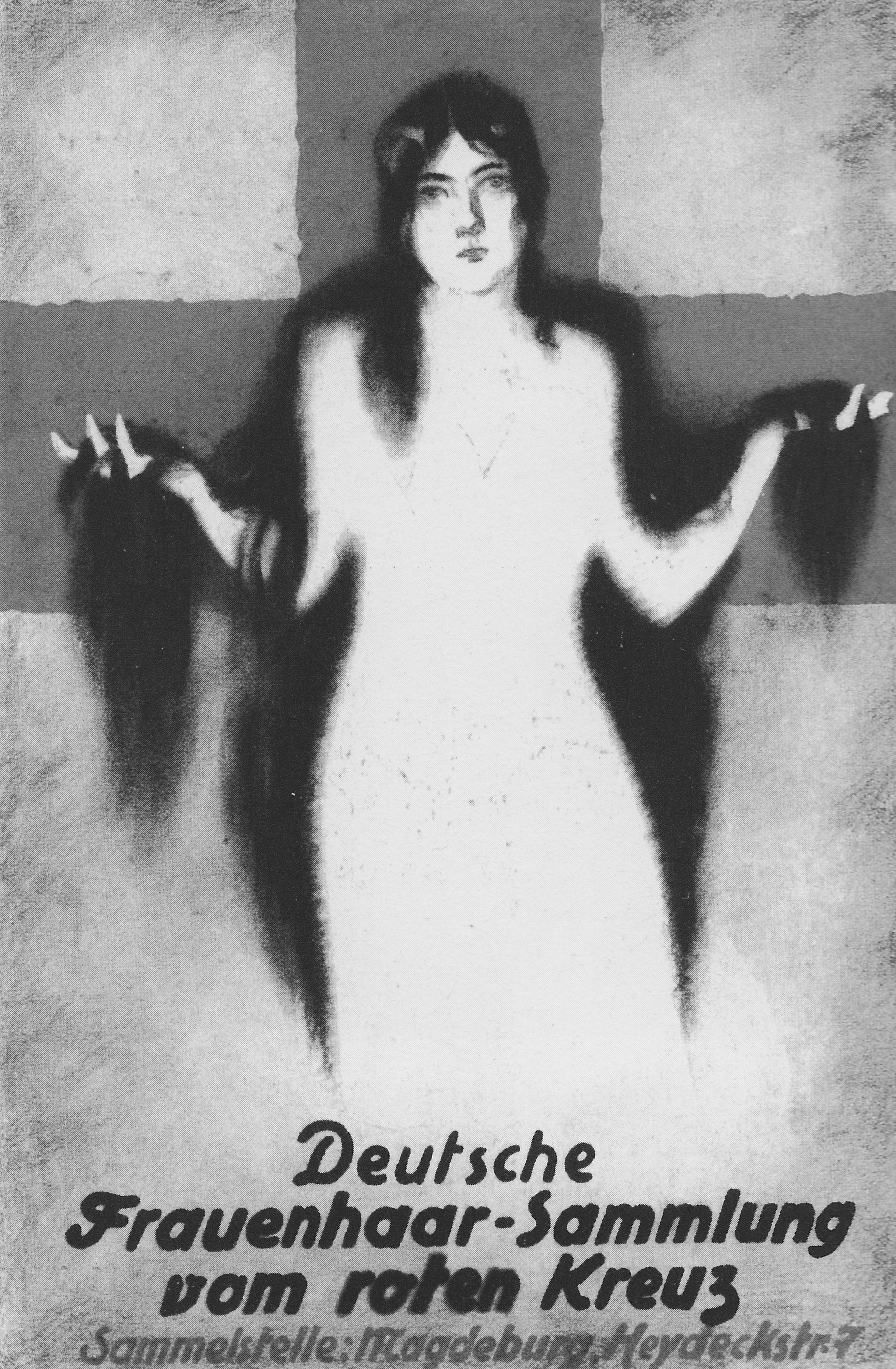 Poster and postcard of the German Women's Hair Collection by Jupp Weirtz (1888-1939)